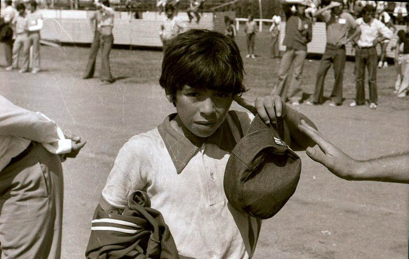 Diego Maradona while playing for the "Cebollitas" team at Torneos Evita of Argentina.